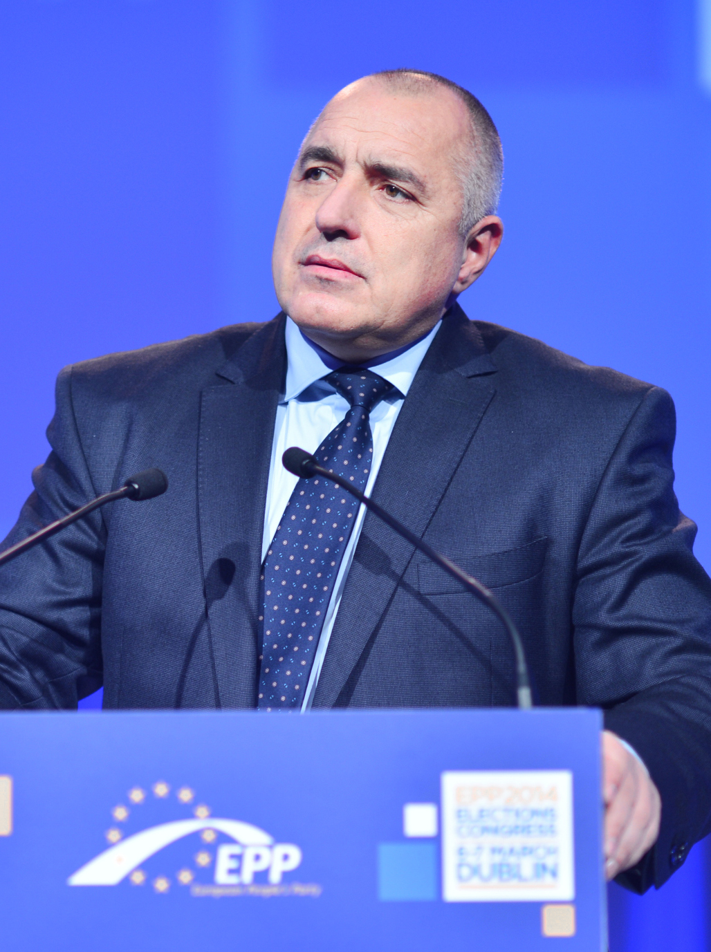 Bulgarian Prime Minister Boyko Borisov addresses the 2014 European People's Party Congress in Dublin, Ireland.